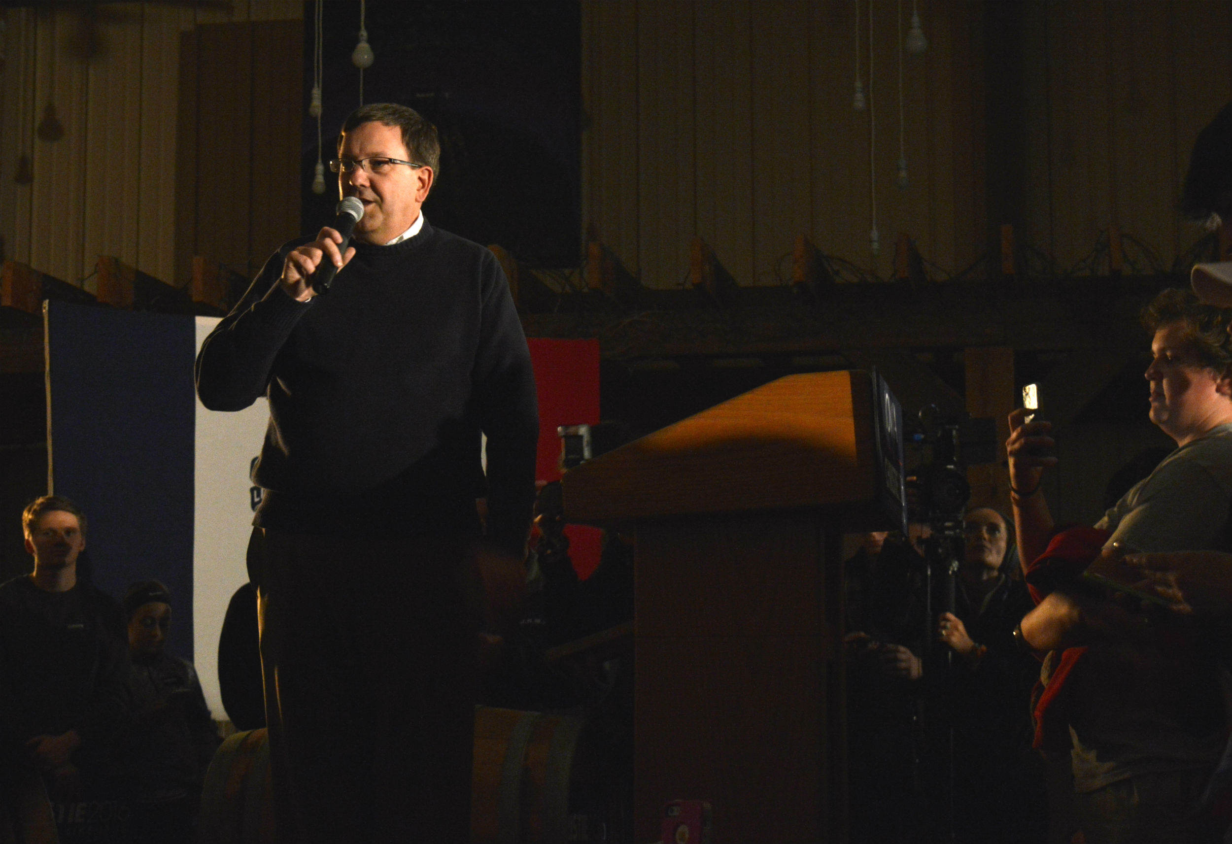 Former Iowa House Speaker Kraig Paulsen, R-Hiawatha, speaks at a rally for Republican presidential candidate Chris Christie at Prairie Moon Winery in Ames, Iowa on Sunday, Jan. 31, 2016. Mandatory credit to Alex Hanson if used elsewhere.